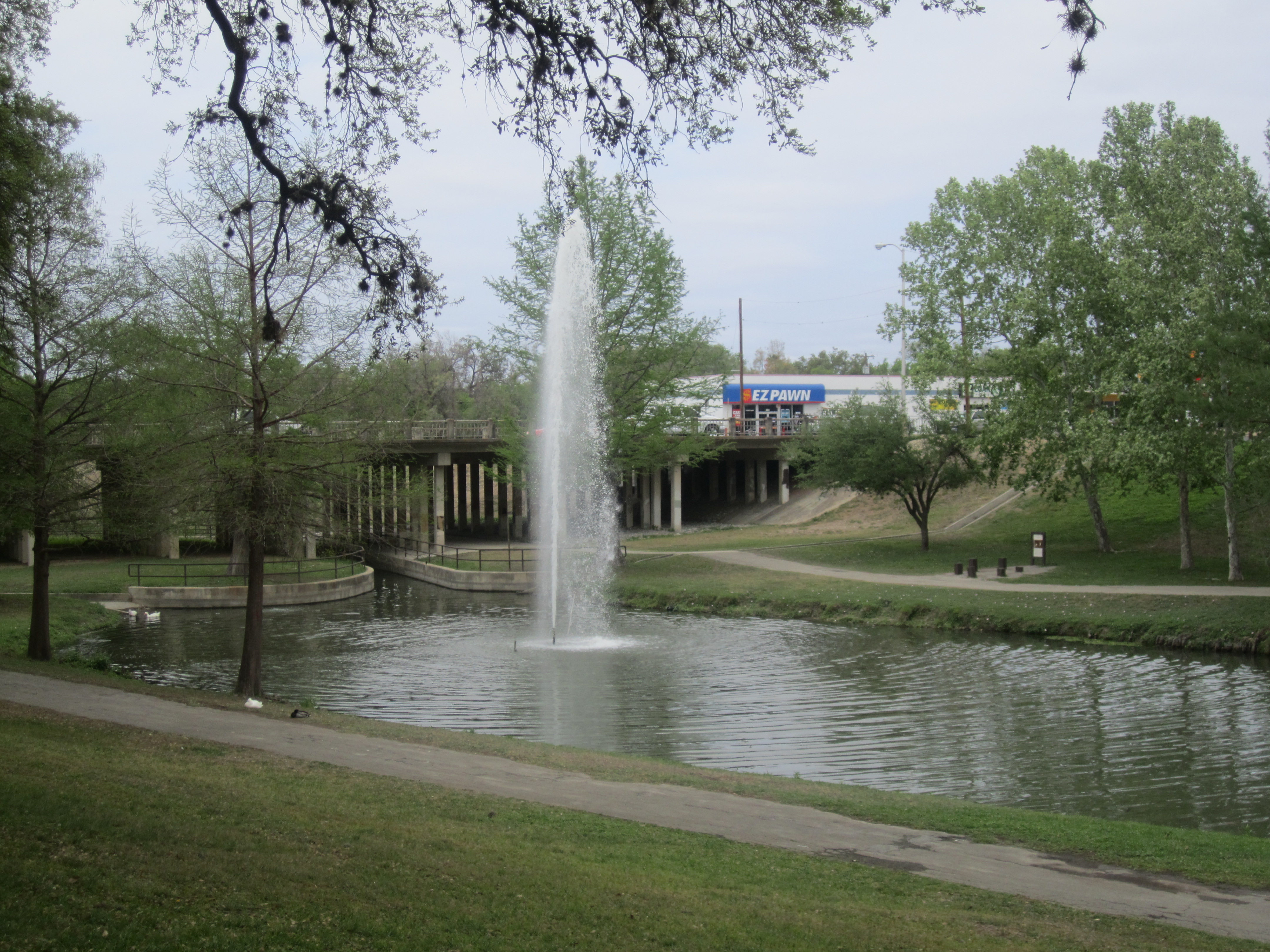 I took photo with Canon camera in Uvalde, TX.